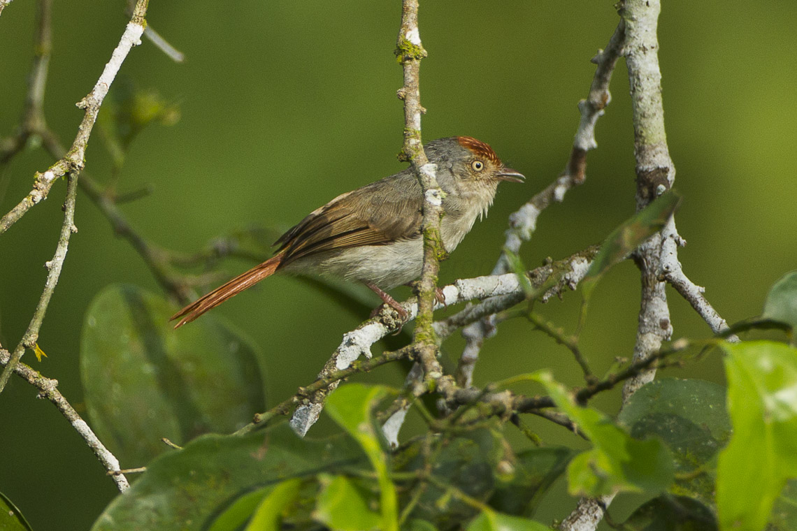 Chestnut-capped Flycatcher - Ghana_S4E1406